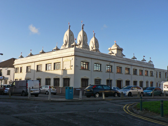 Shree Swaminarayan Temple - Cardiff The temple was the first of its kind in Wales when it was opened in 1982. It stands on the site of a disused printing press warehouse, previously a synagogue and was purchased for £22,000 with the help of a loan received from Willesden Temple in London and from the satsangis, followers of Swaminarayan, in Cardiff. The temple was renovated between 2005 and 2007 at a cost of £700,00.